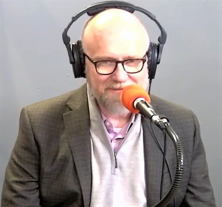 114: Running Against The Devil w/ Rick Wilson| Live From America Podcast The Comedy Cellar Podcast " Live From America" With Noam Dworman & Hatem Gabr. The weeks Guests : Rick Wilson , Comedian Jon Laster and Comedian Lou Perez. Rick Wilson is a longtime Republican political strategist, infamous negative ad maker and commentator. His new book is " Running against the Devil ". Watch more episodes and clips at: Email the show at